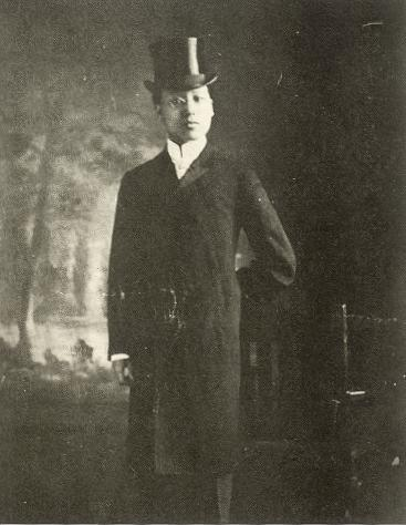 Syngman Rhee dressed formally to meet President Theodore Roosevelt